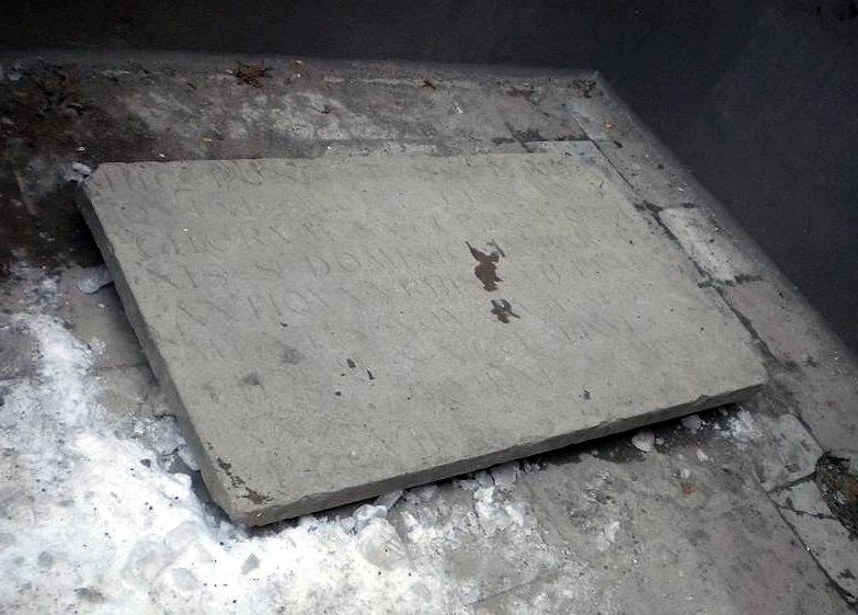 Memorial stone with Latin text honoring those buried at Black Friars’ Cloister Svartbrödraklostret (burial place of Queens Beatrice and Richardice)Place: Courtyard, Svartmangatan 20, Stockholm, Sweden